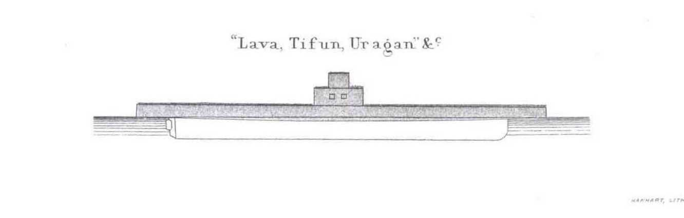 The Russian Uragan-class of monitors, also known as the Bronesonets-class.